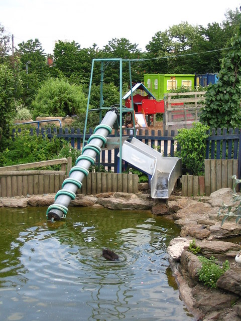 Archimedes' Screw at Heeley City farm Heeley City Farm - a friendly farm and environmental visitor centre in Heeley, in Sheffield, South Yorkshire.